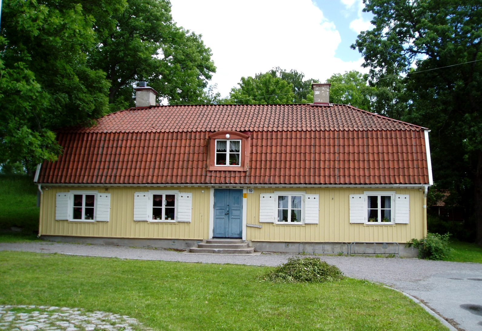 House at Skälby mansion, Järfälla municipality, Sweden